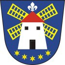 Official flag of the village of Kunkovice, Czech republic.